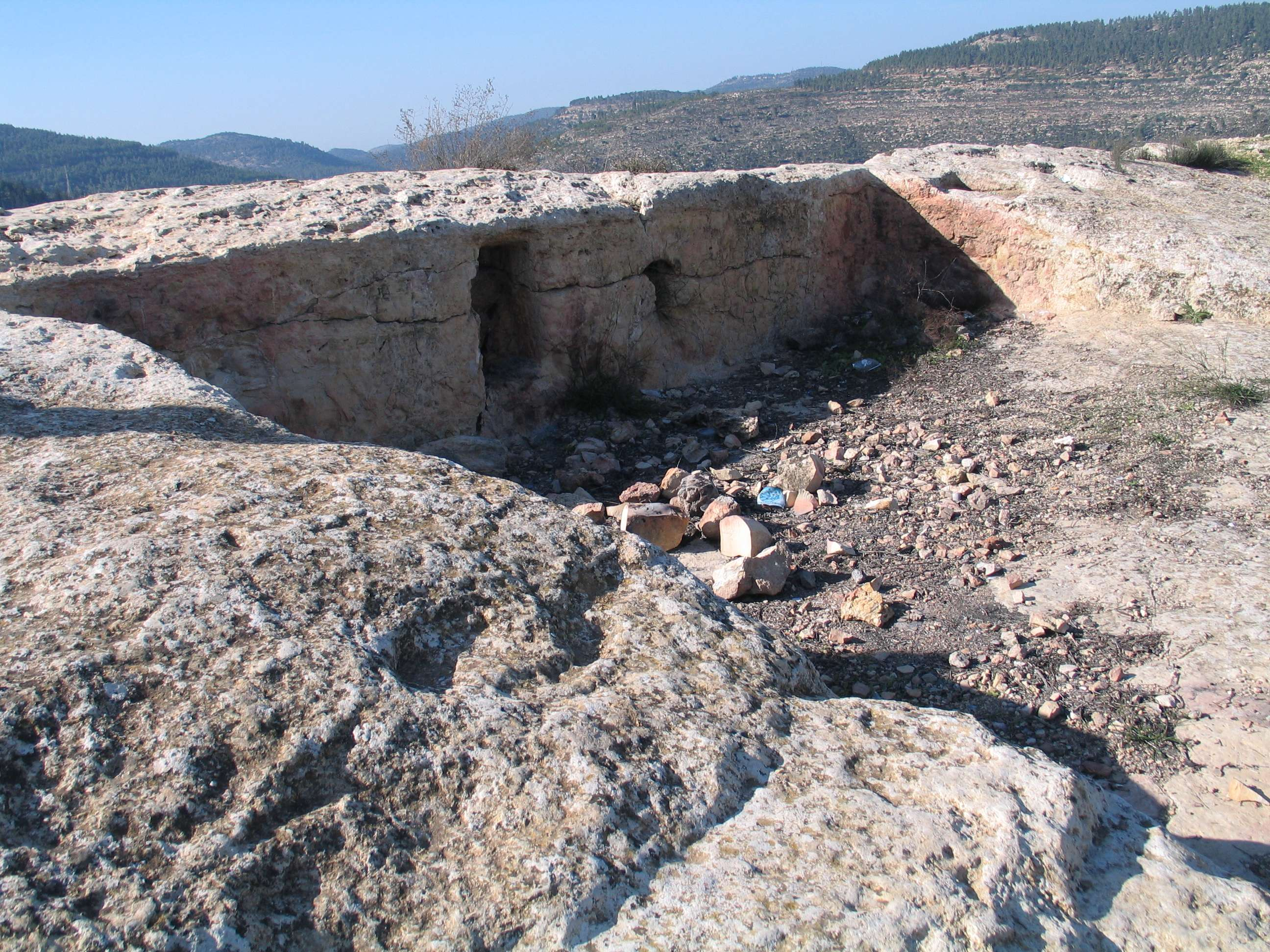 Khirbat el-yahud (ancient Beitar) near Batir.